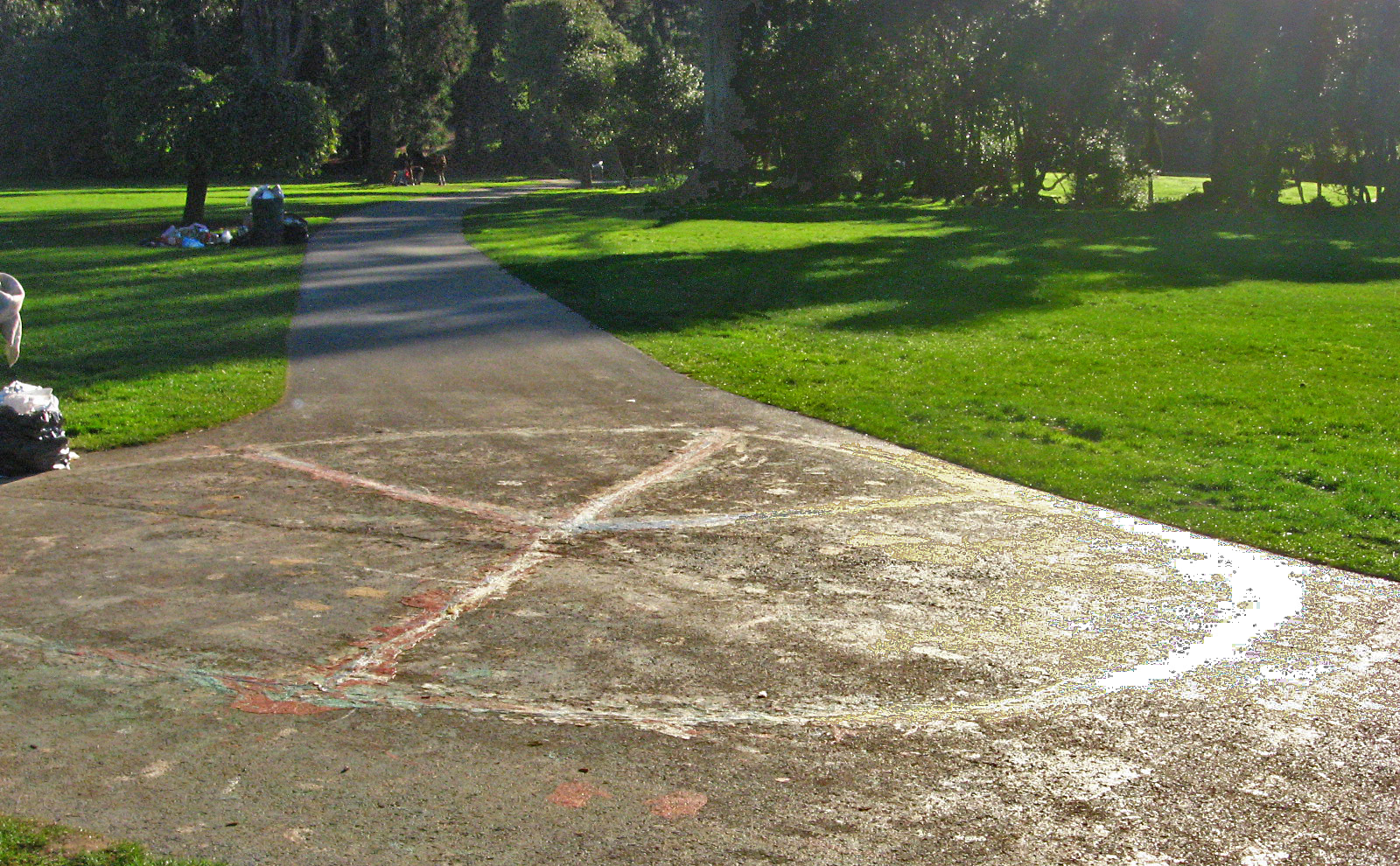 Peace sign drawn on path, Golden Gate Park, San Francisco, California. A group of young hippies is in the background.